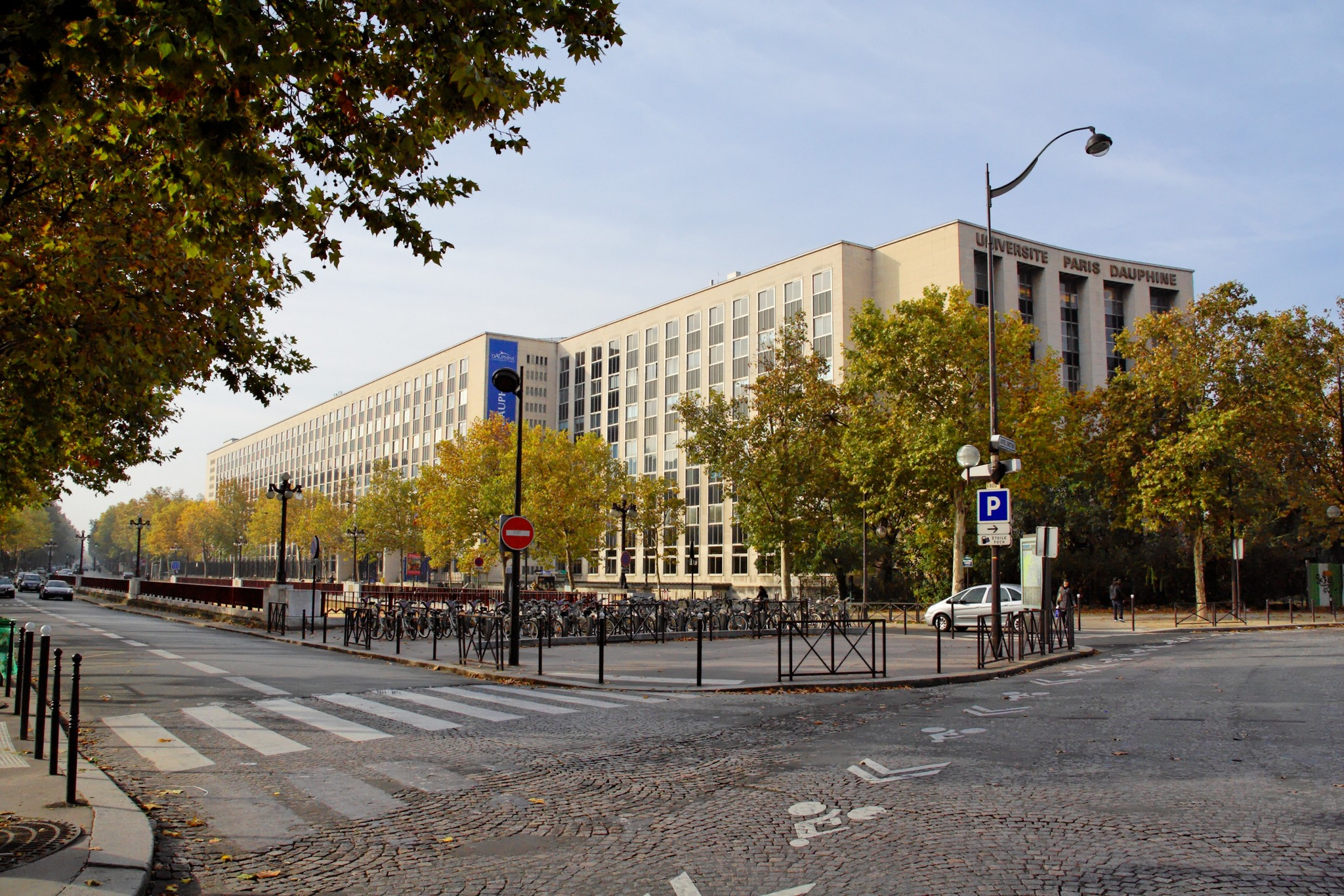 The Centre universitaire Dauphine (which houses the Paris Dauphine University as well as other higher-education institutions) seen from the intersection of the Boulevard Lannes with the Place du Maréchal-de-Lattre-de-Tassigny in Paris.